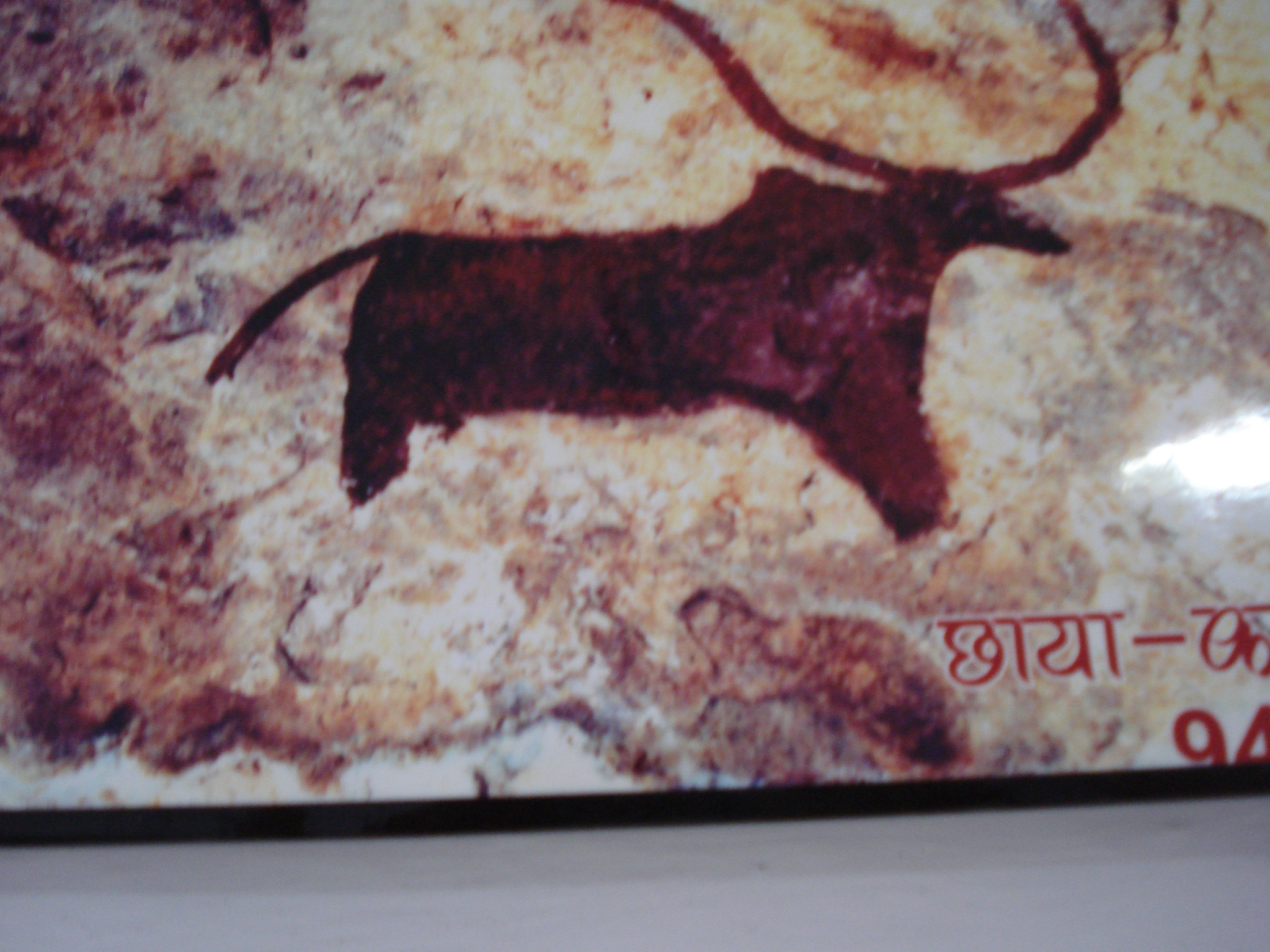 Rock_painting_Bhanpura in Mandsaur district in Madhya Pradesh